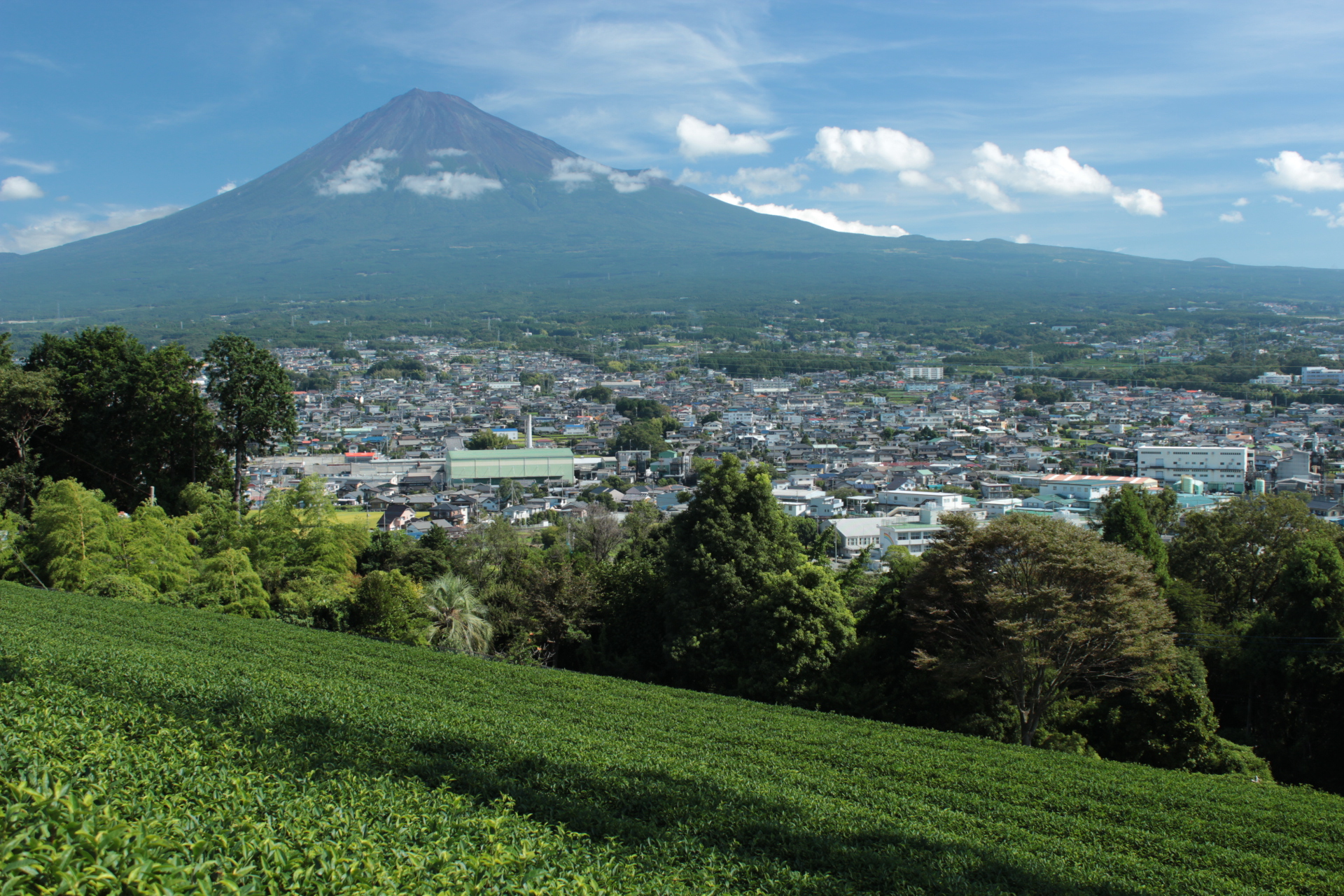 Mount Fuji as seen from the ssw in Fujinomiya, Shizuoka Prefecture, Japan.